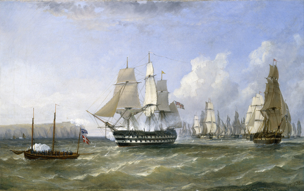 HMS Warrior protecting a convoy passing Reefness, September 1807